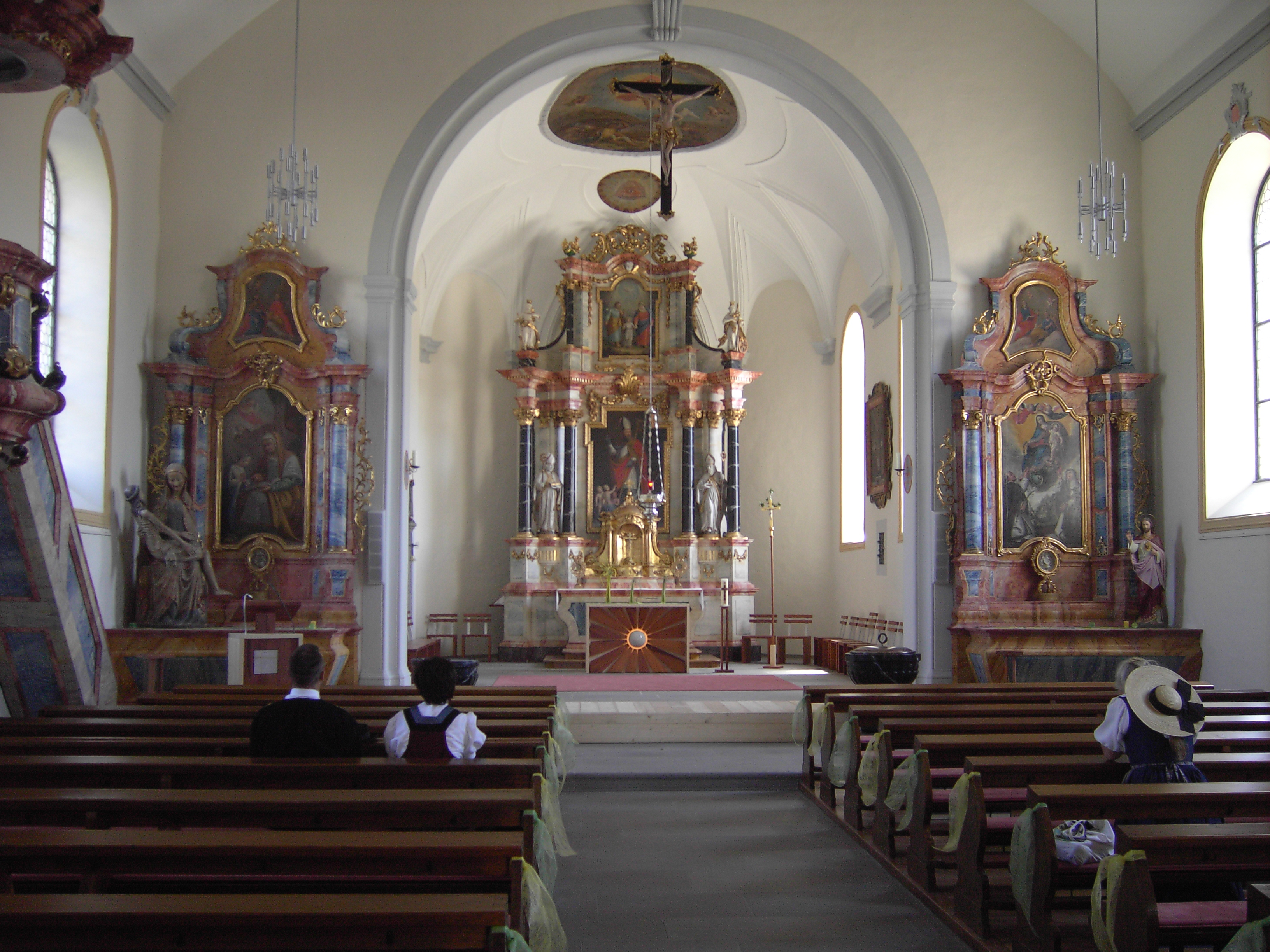 Rechthalten FR Inside of rom.-cath. church